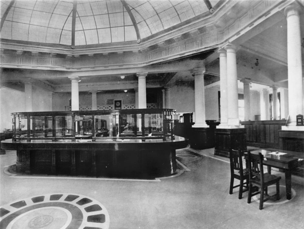 Interior view of the Queensland National Bank, Brisbane, 1922. View of the main banking area showing the teller's cages, counters and tables. The domed roof is supported by stone columns and a circular feature is imbedded into the floor at the entrance.